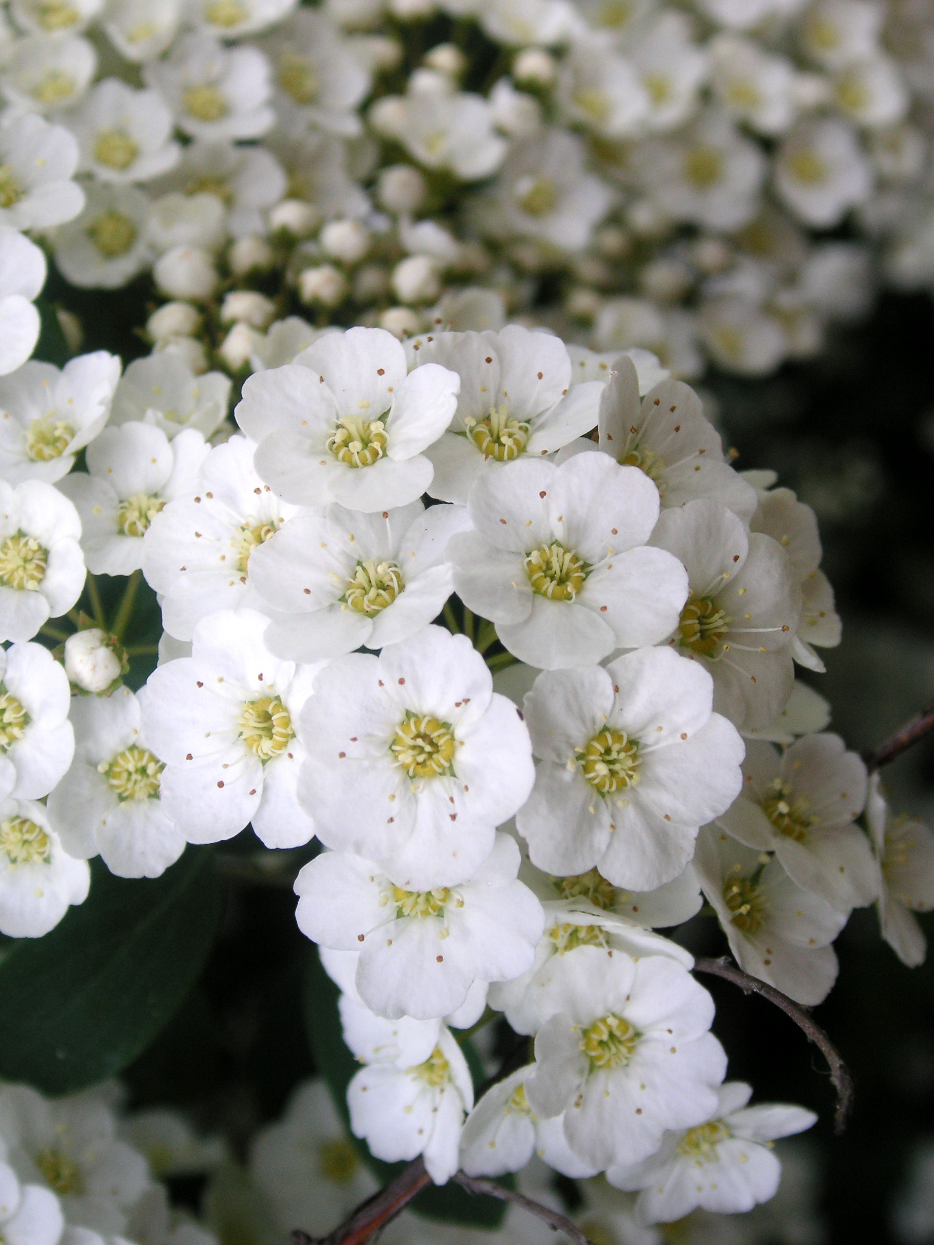 Spiraea crenata